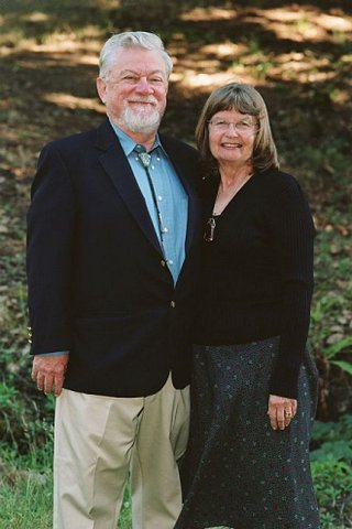 This photo was taken at The Sea Ranch in California in celebration of the 50th Wedding Anniversary of Don and Nancy Anderson